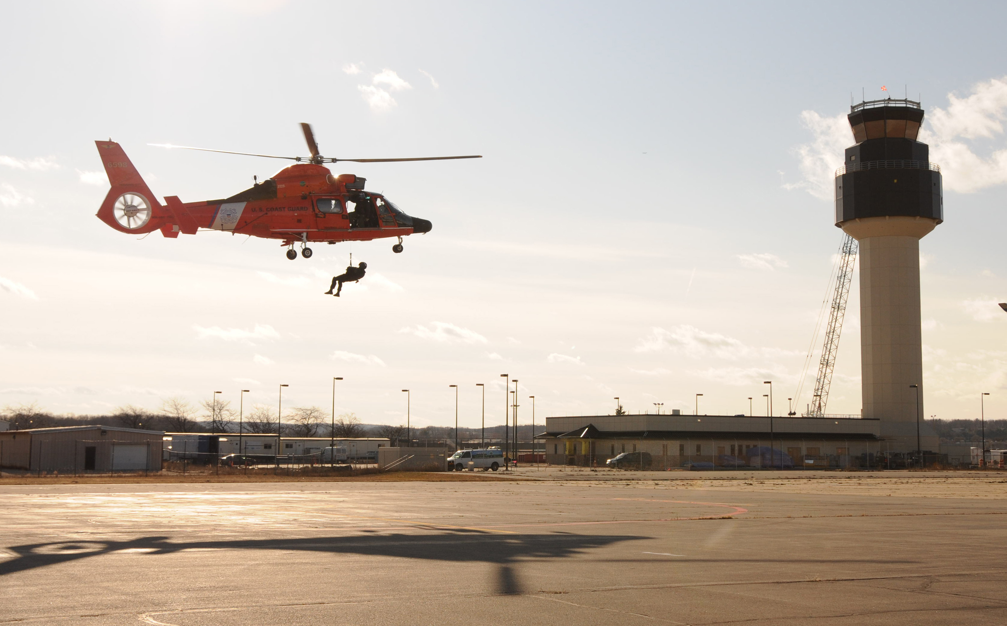 TRAVERSE CITY, Mich. - A Coast Guard Air Station Traverse City, Mich., aircrew hoists a member of the Michigan State Police Emergency Support Team aboard the air station's MH-65C Dolphin rescue helicopter during joint-agency training at the air station, Dec. 8, 2011.The training was held to qualify members of the state police for operations with other agencies' aircraft, and allows the air station crew to better understand the state police's procedures and capabilities.U.S. Coast Guard photo by Lt. j.g. Jim Okorn